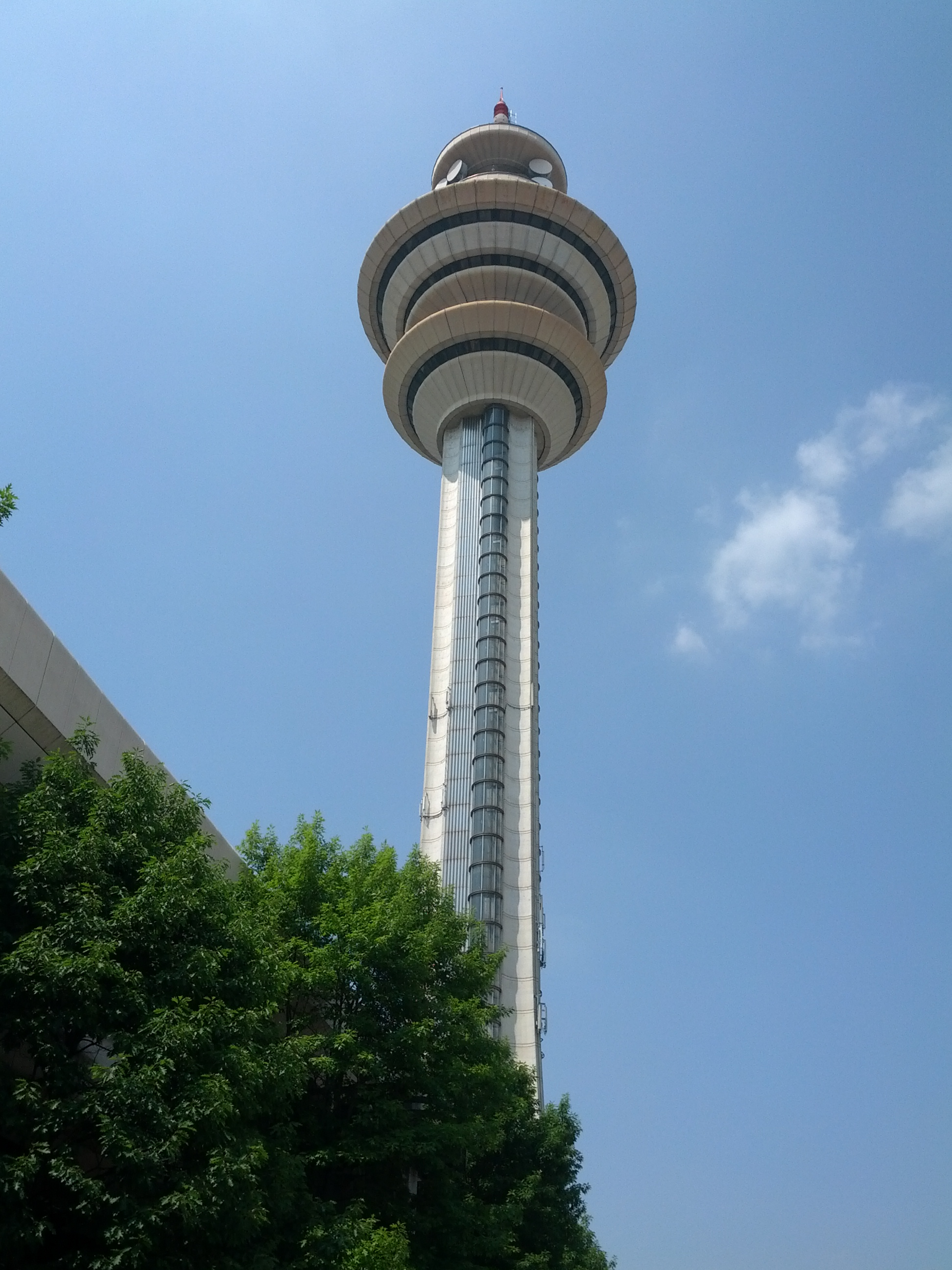 Torre Telecom Italia, Rozzano